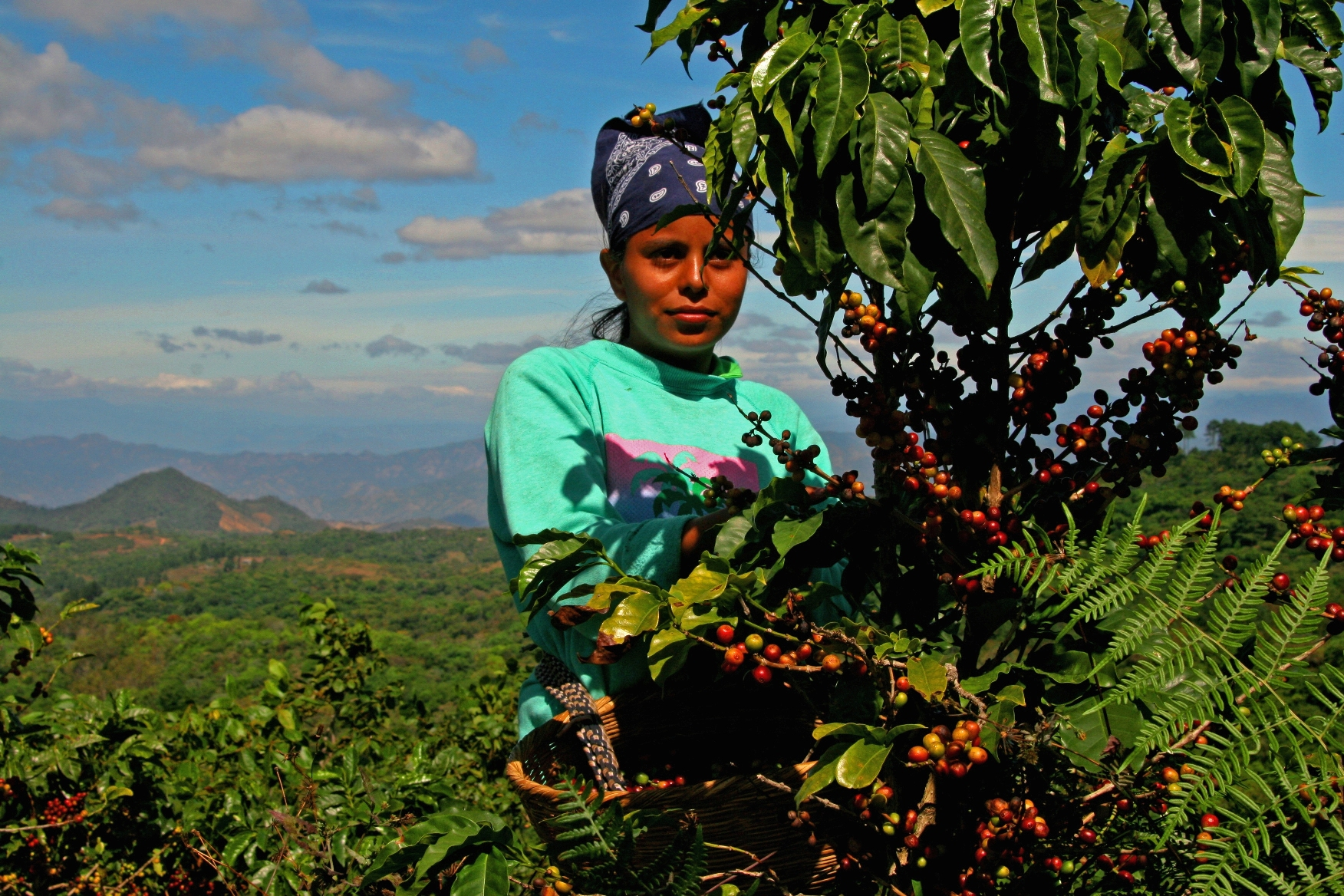 Coffee picker on Salvadoran cooperative Ciudad Barrios, certified by the Rainforest Alliance. Credit: Robert Goodier